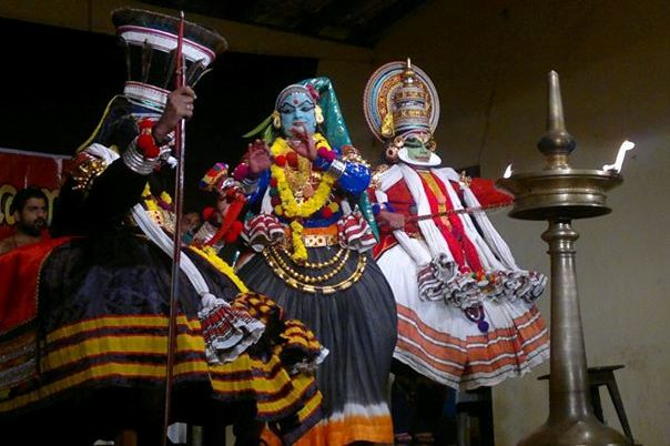 Kiratham Kathakali Performance at Vazhappally Siva Temple, Changanassery